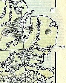 A section from William Shepherd's physical map of Britain